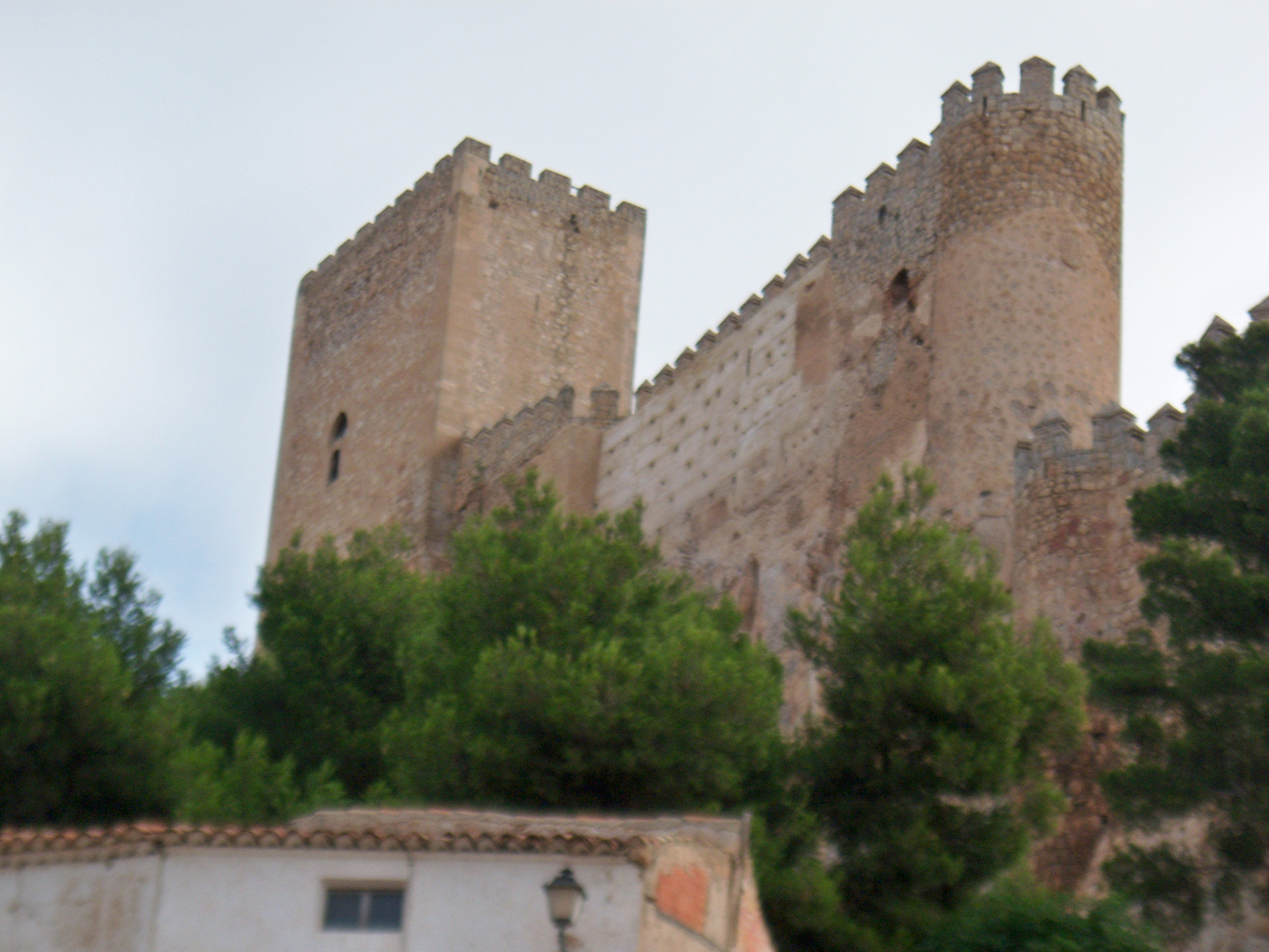 Castle of Almansa (Spain). Castle of Almansa (Almansa). See also: Castles in Spain.